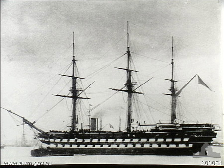 Williamstown, Victoria. Between 1870 and 1879. Port broadside view of the wooden steam battleship HMVS Nelson.